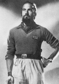 Piero Balbo crop photo